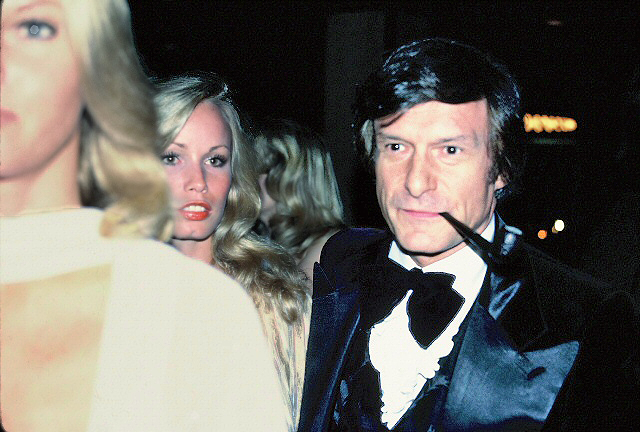 Hugh Hefner at the premiere of Sylvester Stallone's movie F.I.S.T., April 1978